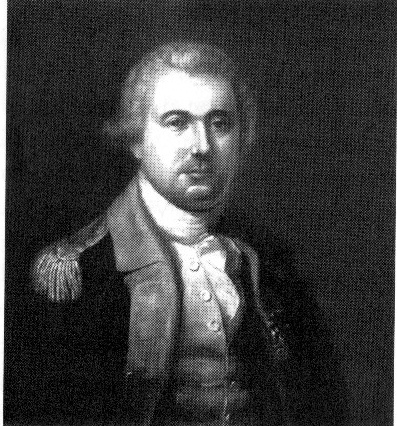 Delaware Public Archives from Martin, Roger A. (2003) Delawareans in Congress: The House of Representatives, Vol. One 1789-1900, Category:Newark: Roger A. Martin ISBN 0-924117-26-5.